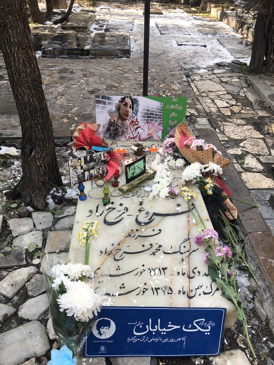 53rd death anniversary of Forough Farokhzad